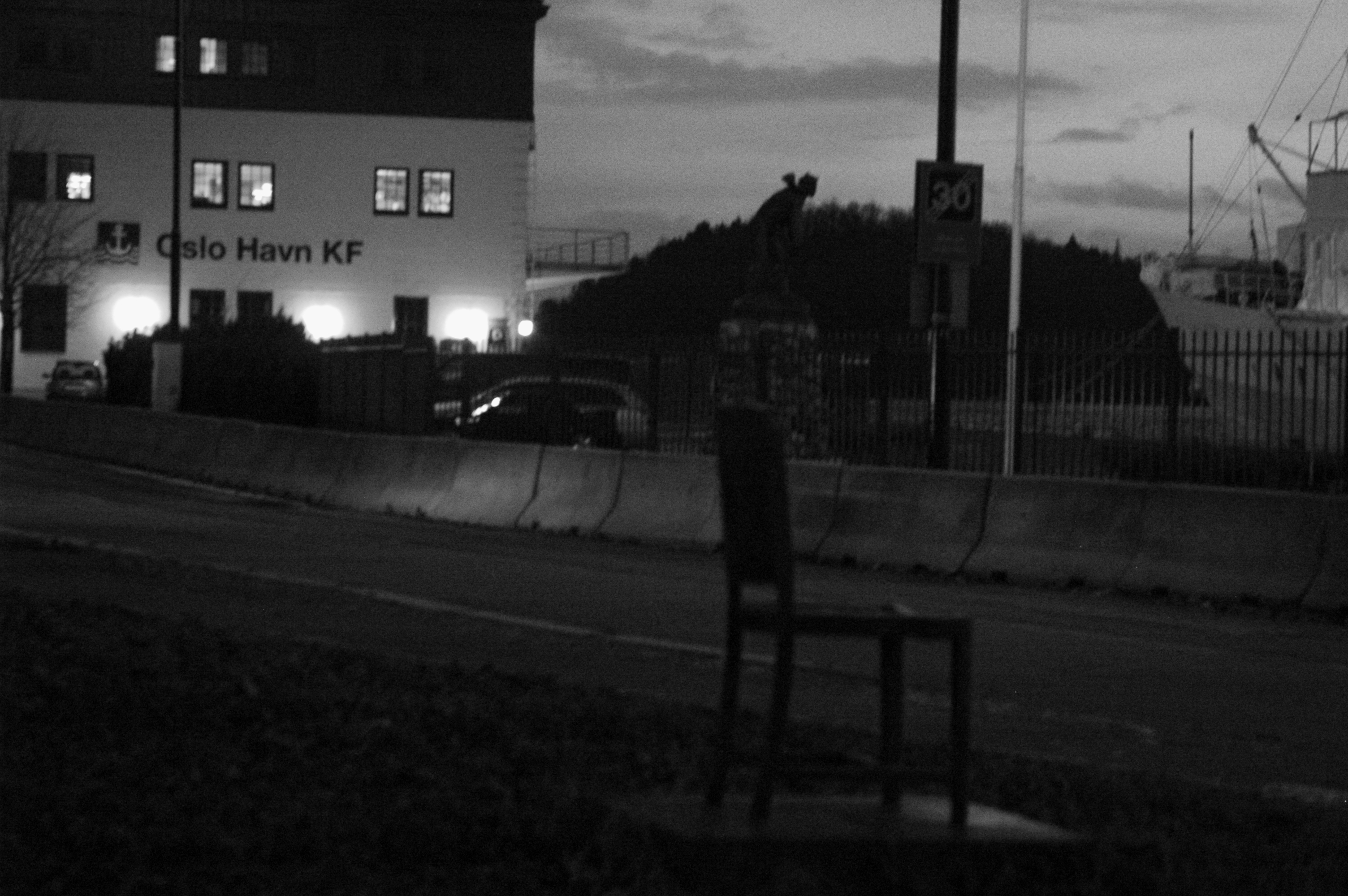 Akershuskaien from the view of the memorial for the deportation of Jews during World War II. This is approximately the view from where prisoners arrived by train or car.